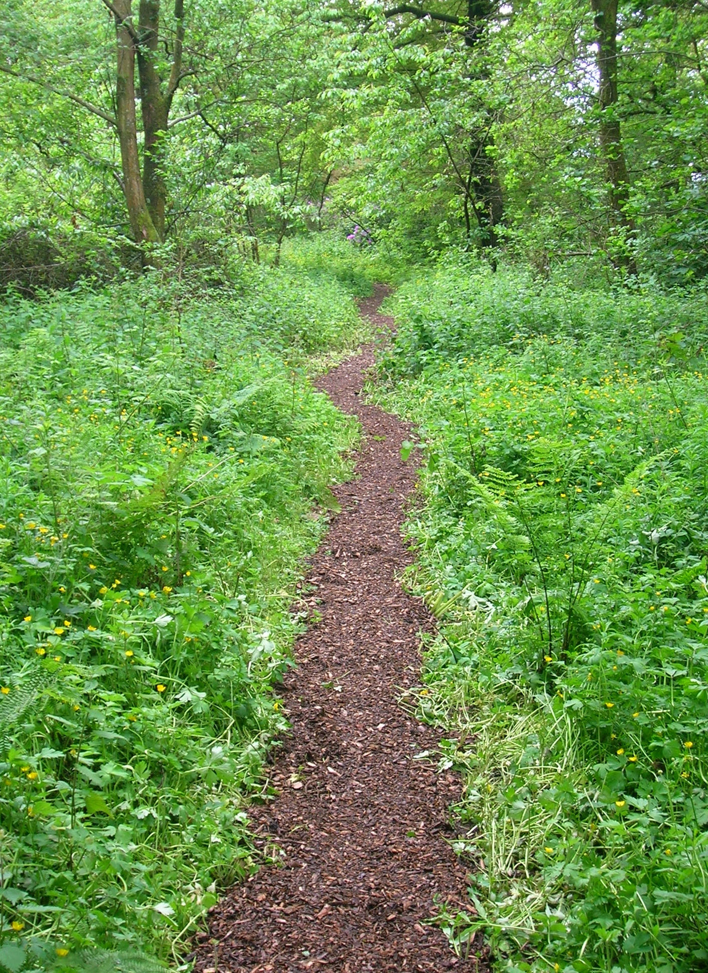 The restored Forbidden Path at Spiers, Beith, North Ayrshire, Scotland